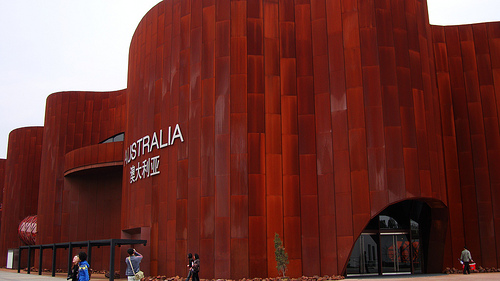 the Australia pavilion of Shanghai expo2010.